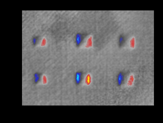 Steinbichler_Shearography_Honeycomb with CFRP Top Layer_Artificial failures that simulate layer-core delaminations_Gradient-view Result